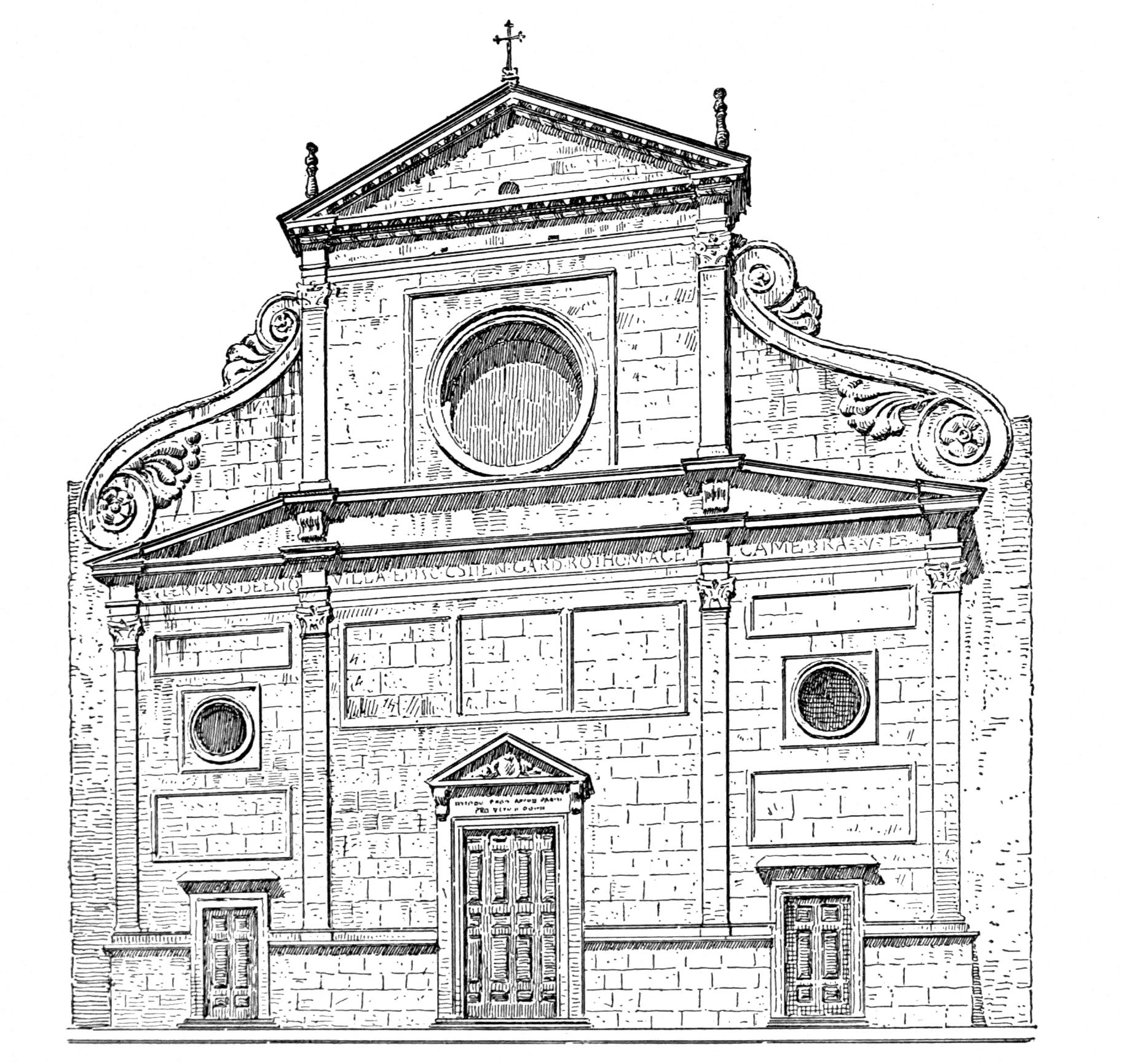 Scan from book 'Character of Renaissance Architecture'